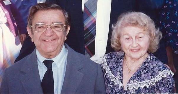 A picture of Frank and Sadie Delfino with my father